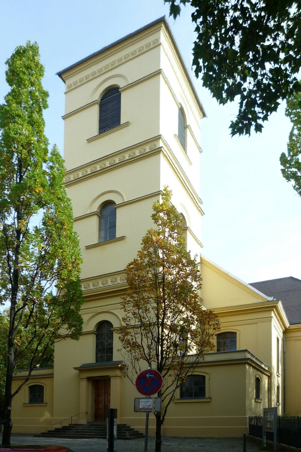 The Luisenkirche, a protestant church at Gierkeplatz in Berlin-Charlottenburg.